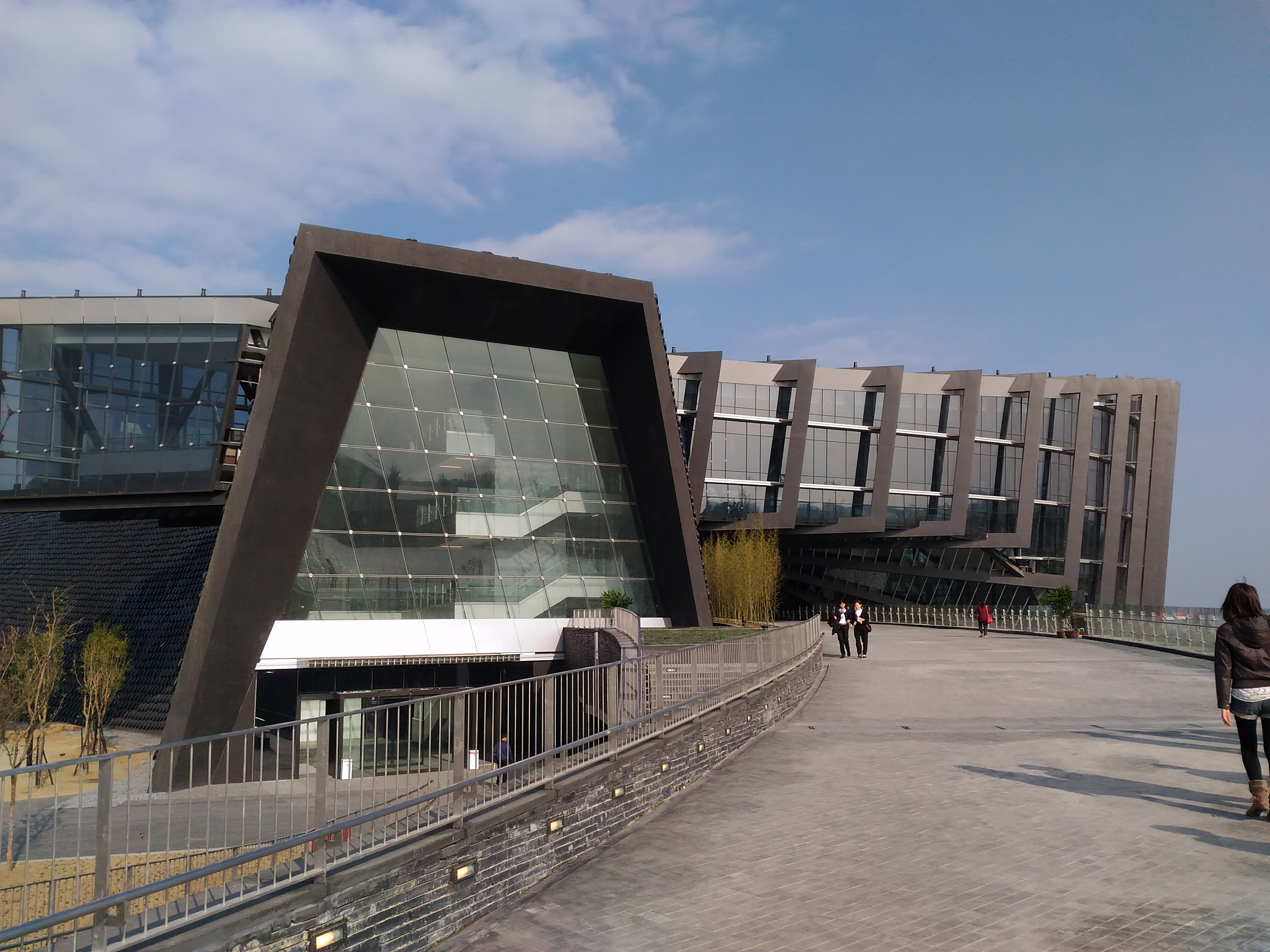 Southern Branch of the National Palace Museum Entrance slope